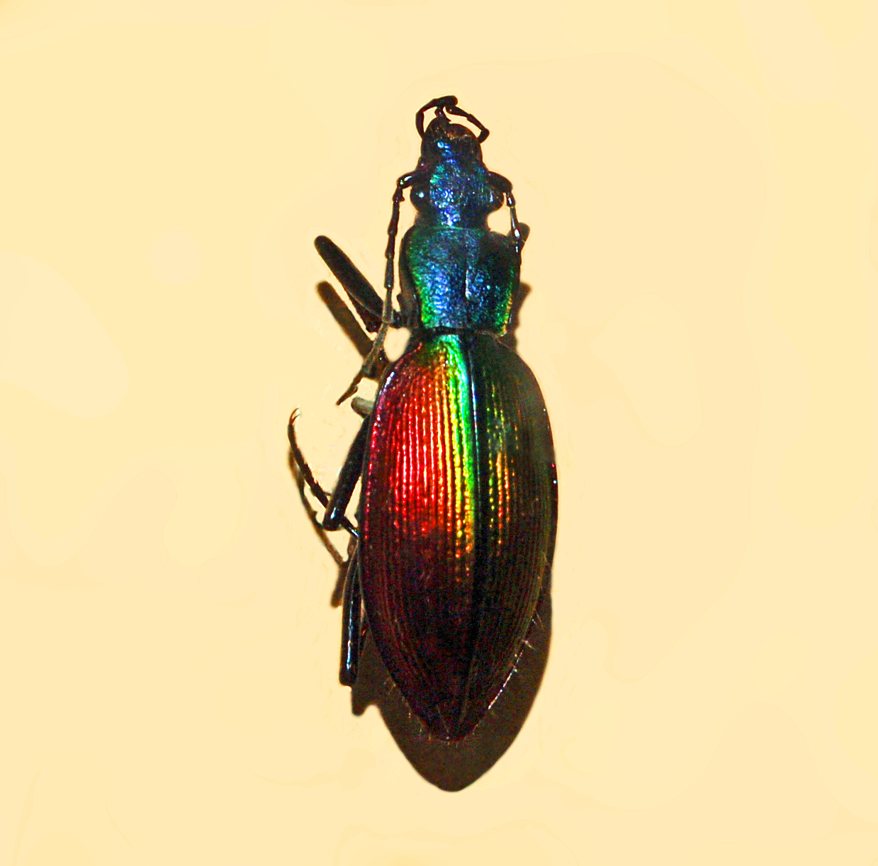 Ceroglossus buqueti from Chile.